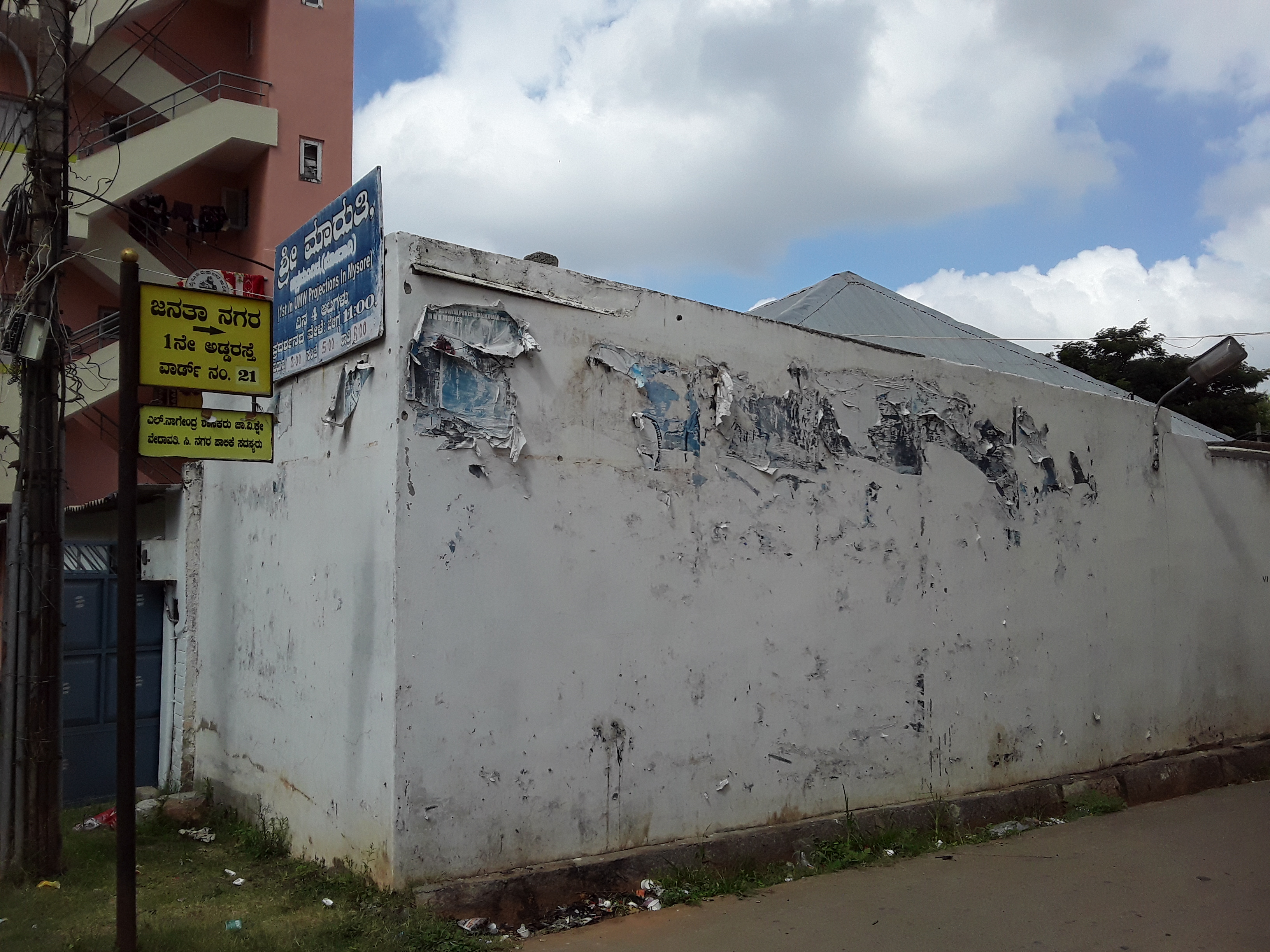 The first UMW projector based cinema hall of Mysore city was called Maruti Tent and the structure is still visible at T.K.Layout, Mysore. The bus stop is still called 'Maruti Tent' and the location comes near Speech and Hearing Instiute. Bus number 135 reaches this location.